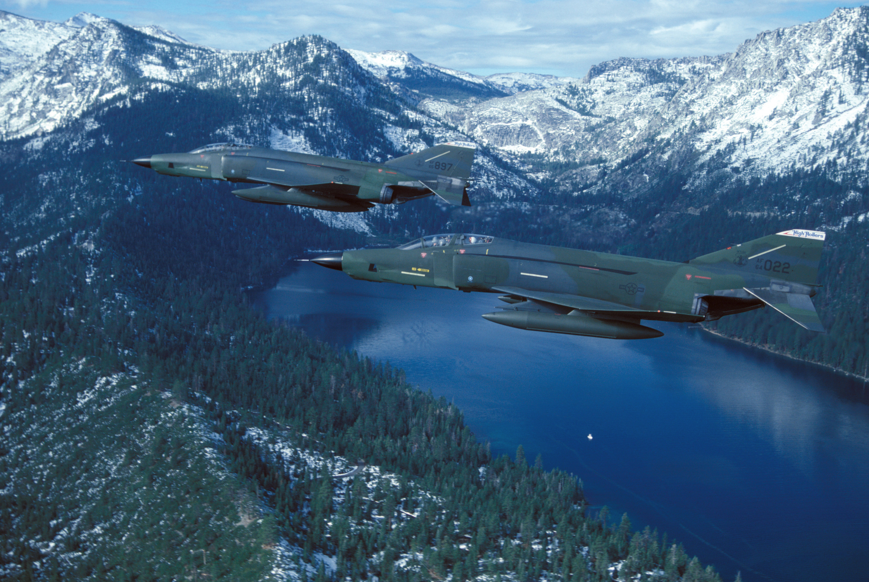 Two U.S. Air Force McDonnell RF-4C Phantom II aircraft (s/n 64-022, 65-897) from the 192nd Tactical Reconnaissance Squadron, 152nd Tactical Reconnaissance Group, Nevada Air National Guard, flying over California (USA) during the reconnaissance exercise "Photo Finish '85" on 3 October 1985.